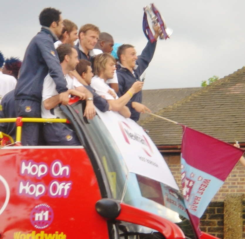 Players of West Ham United on board an open top bus outside the Boleyn Ground to celebrate their winning the 2005 Championship play-off final in Cardiff against Preston North End. Mark Noble is holding the trophy.